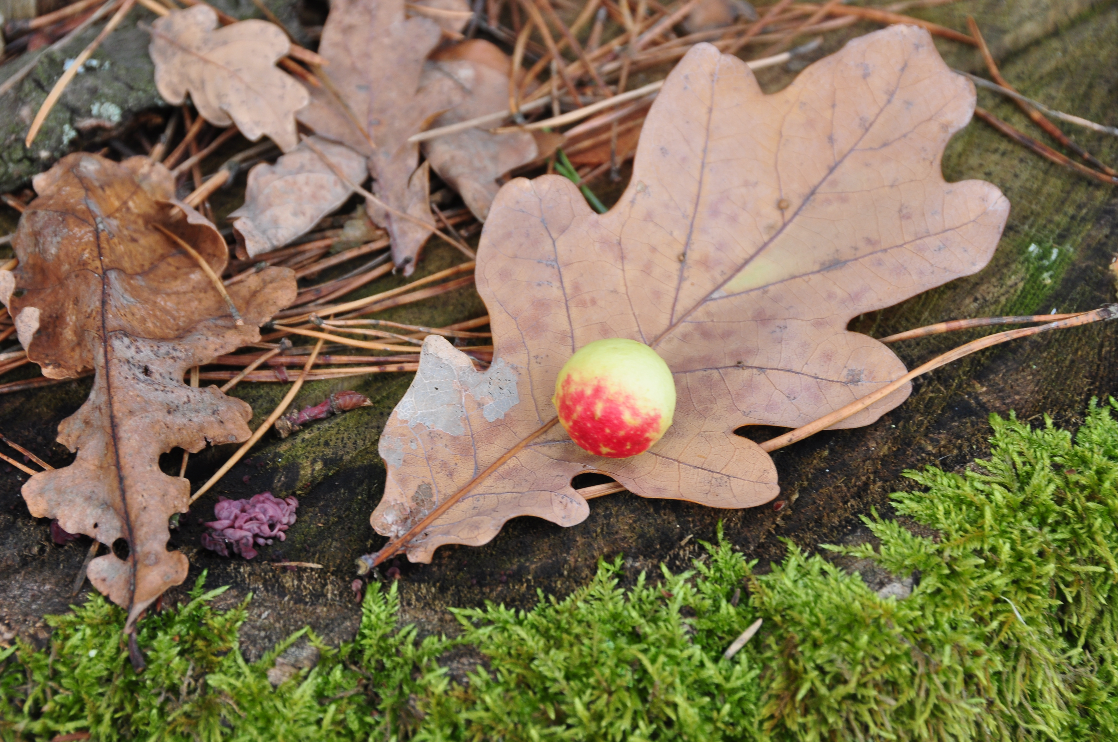 Andricus quercusfolii leaf gall on the leaf of Quercus robur. Near Tyshycia village, Kamianka-Buzka Raion, Lviv Oblast